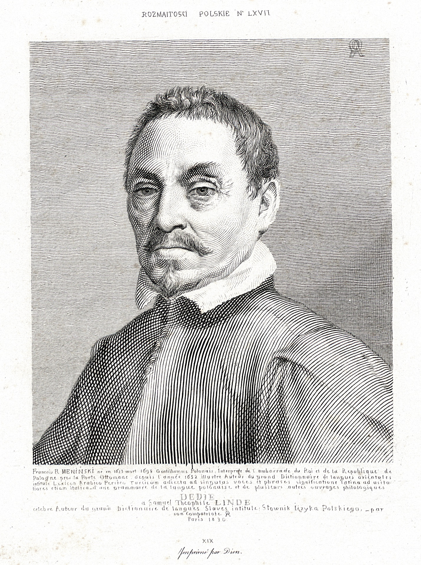 A portrait of the author of 'Thesaurus Linguarum Orientalium' the Turkish-Latin dictionary published in 1680, by Antoni Oleszczyński (1794-1879), Polish engraver.